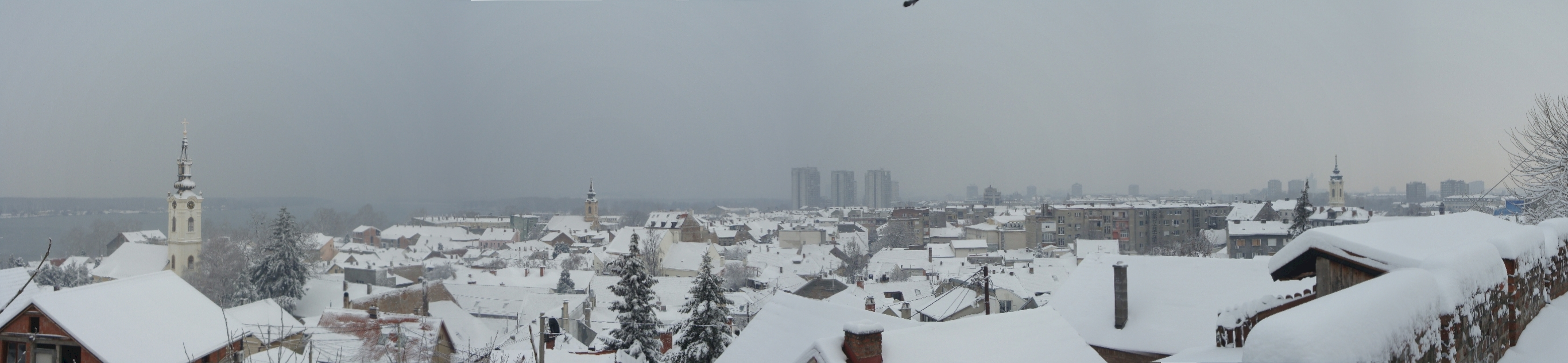 Snowy cityscape of old Zemun.